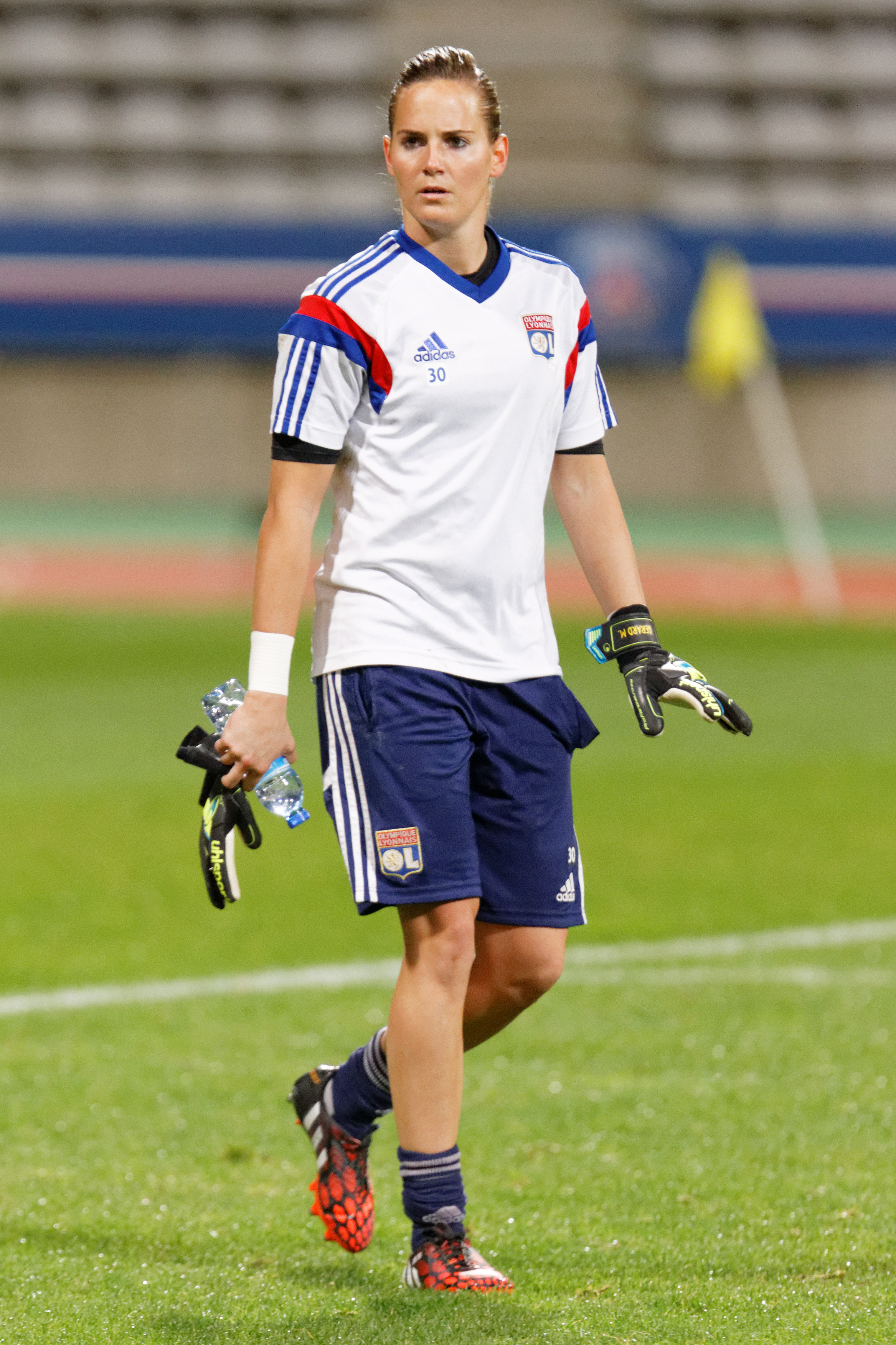 UEFA Women's Champions League, PSG - Lyon, 8 November 2014.